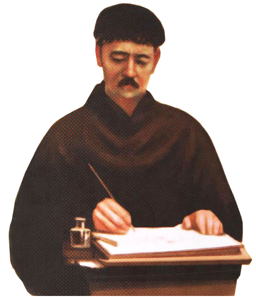 Cropped out of the collective portrait photograph of fra Antun Knežević and local villagers in Bosnia, probably around Jajce, taken for "Bosanski prijatelj" ("Bosnian Friend") periodical in 1870.